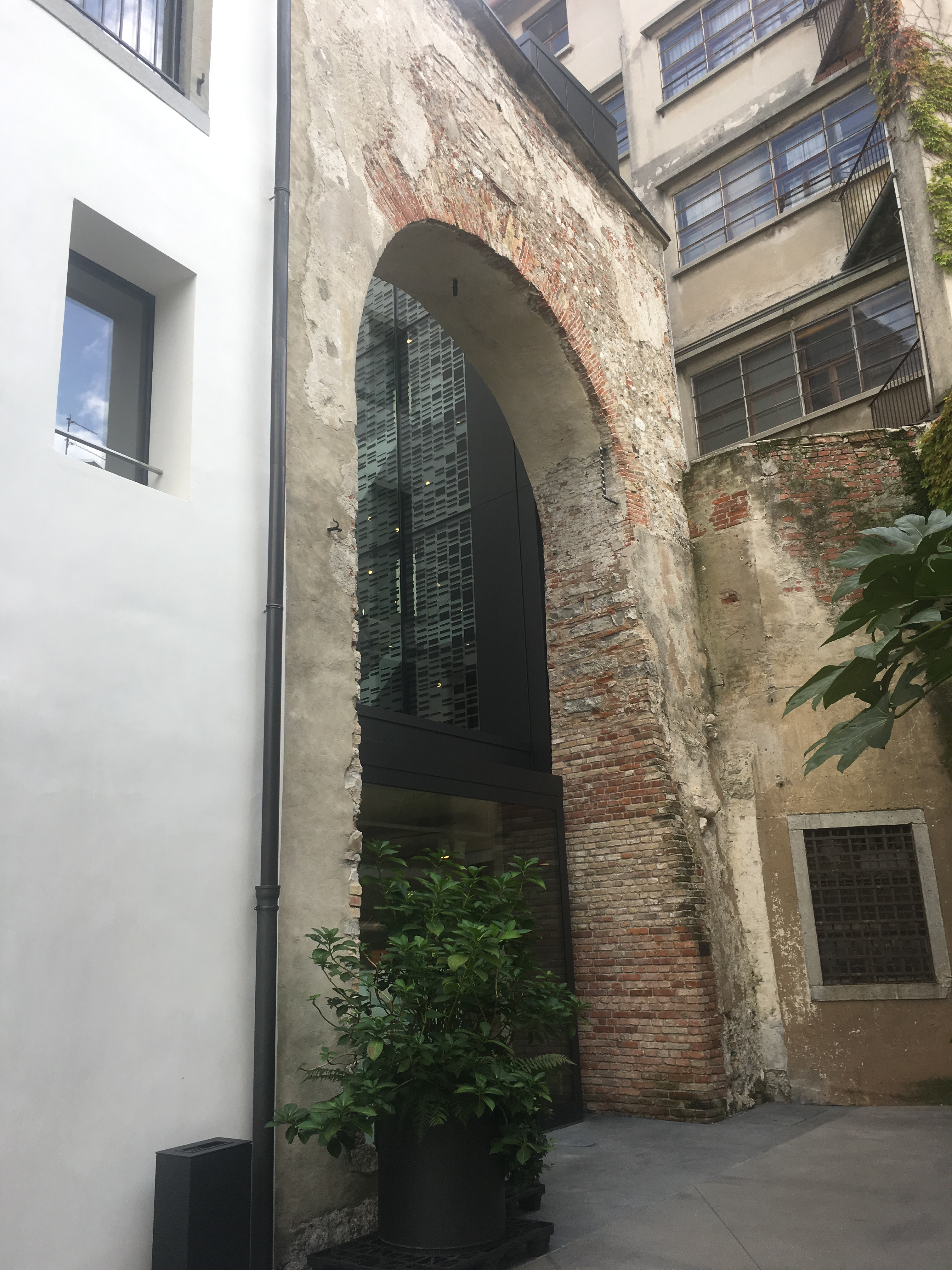 Porta Poscolle